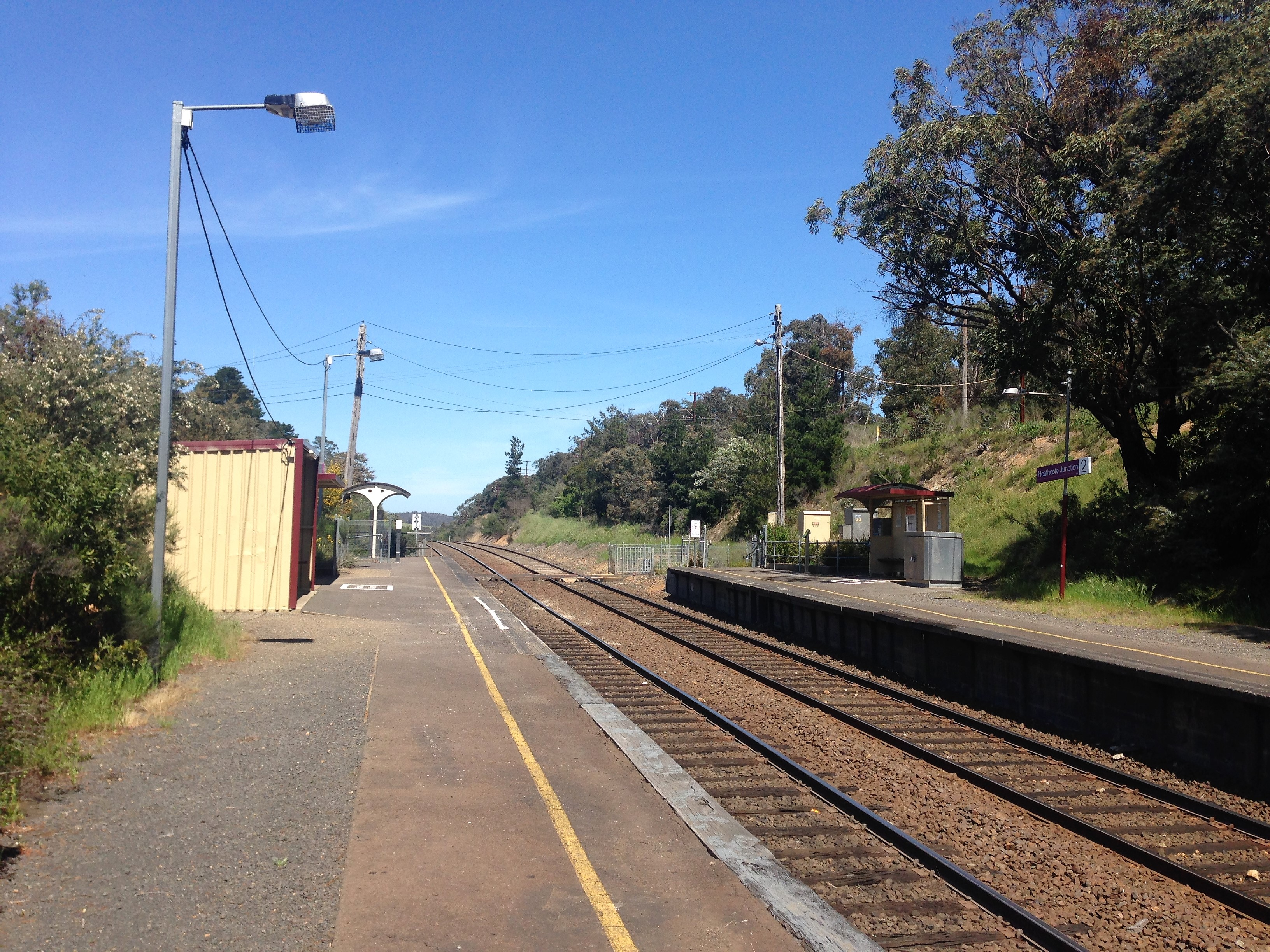 Platform 1 (left) and platform 2 (right) at Heathcote Junction railway station.